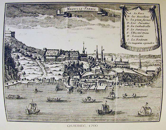 View of Quebec in 1700